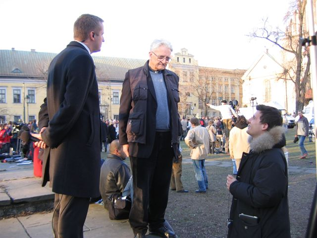 Adam Boniecki (b. 1934), editor-in-chief of "Tygodnik Powszechny, Cracow (Poland), April 2, 2005, The Day of Death John-Paul II